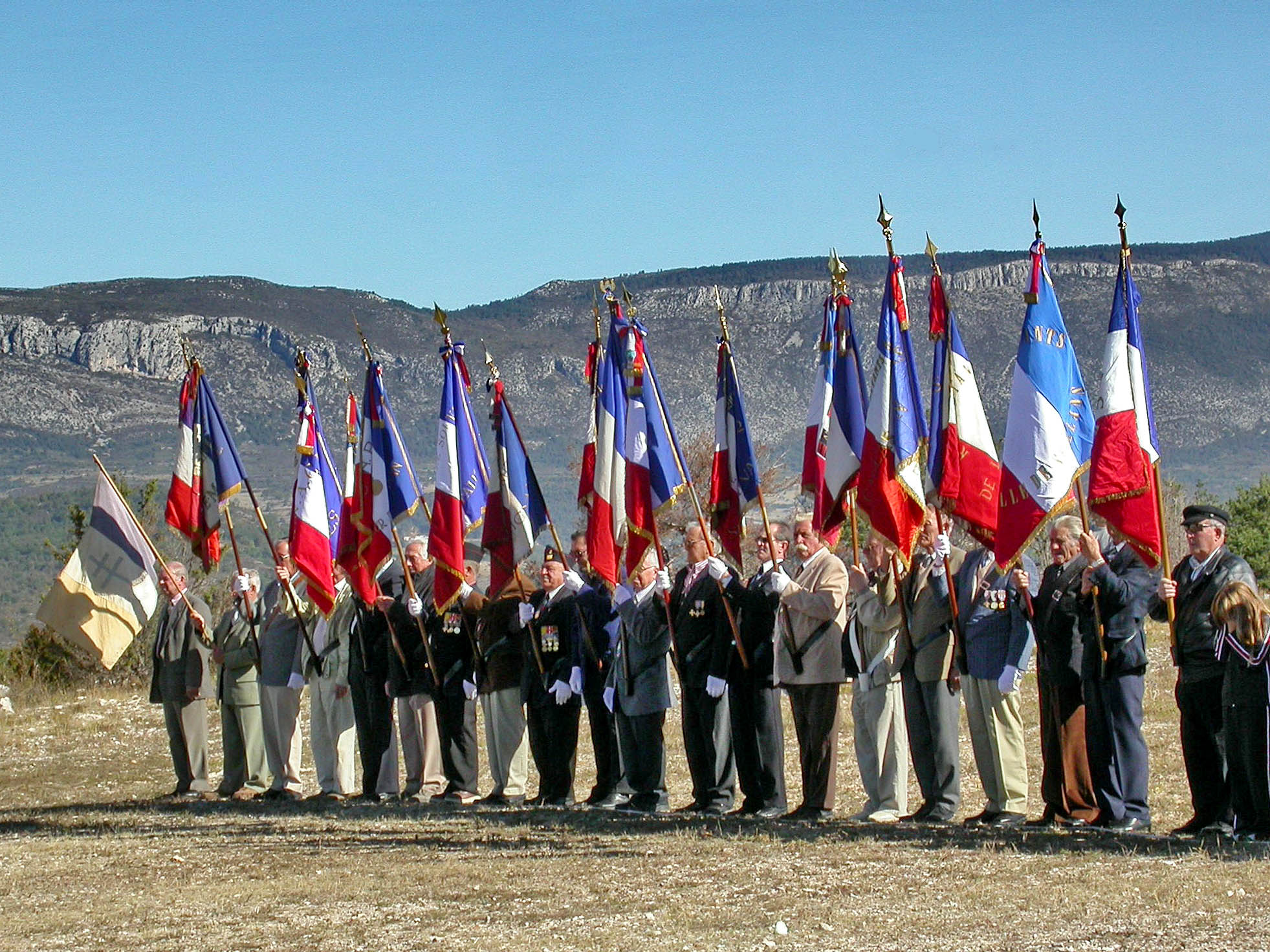 annual commemoration of vetran resistants in Clos d'Espargon, Military camp of Canjuers )